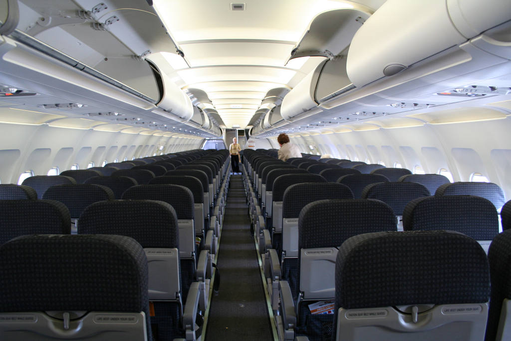 Interior of a Tiger Airways Australia Airbus A320-232 jet, looking forward, rego VH-VNB